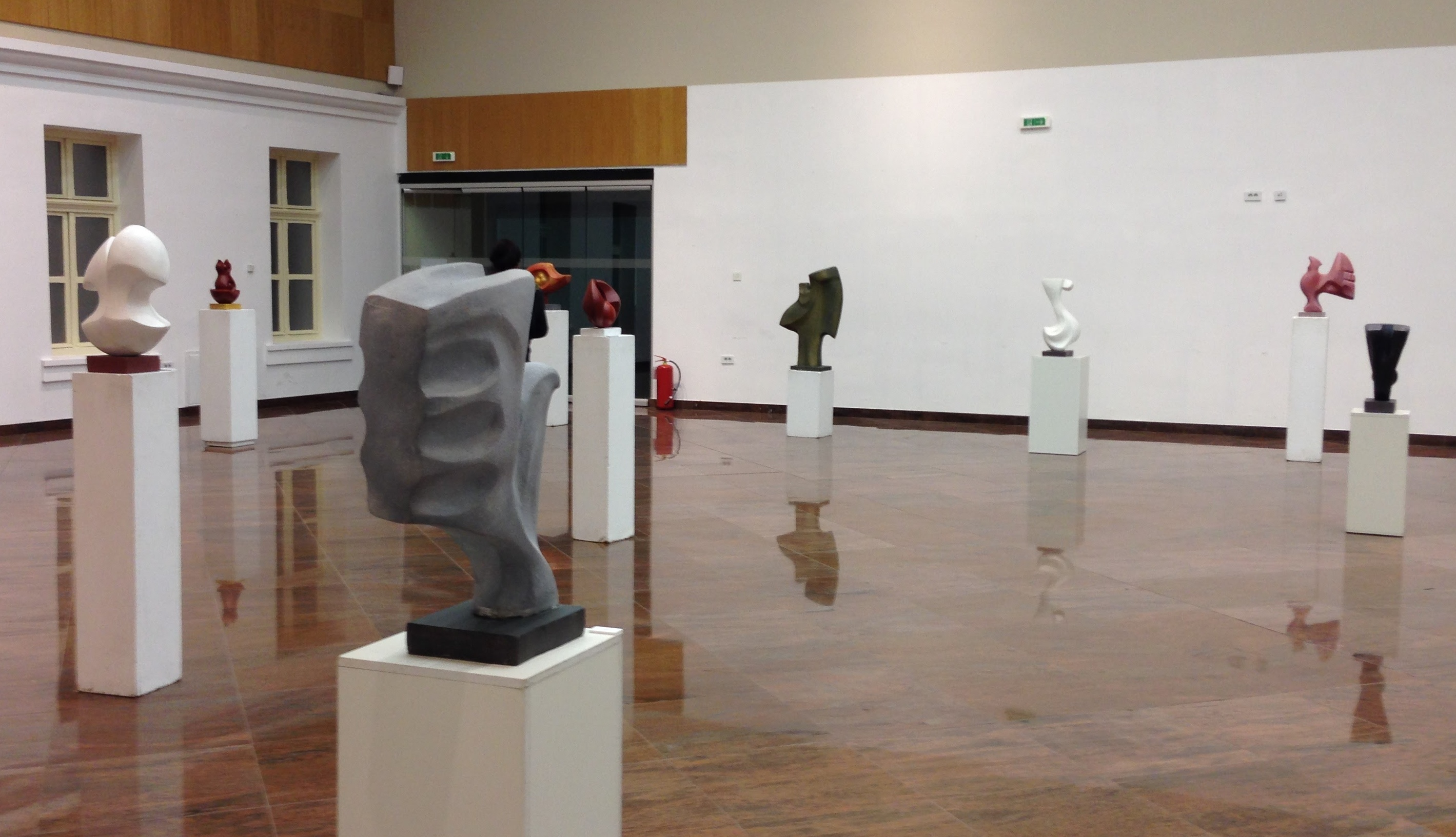 Solo exhibition of the Gallery of the Home Officer in Niš, Serbia, 2017.10.03, Vasilije Perevalov (1937). Sculptor from Niš, Serbia.